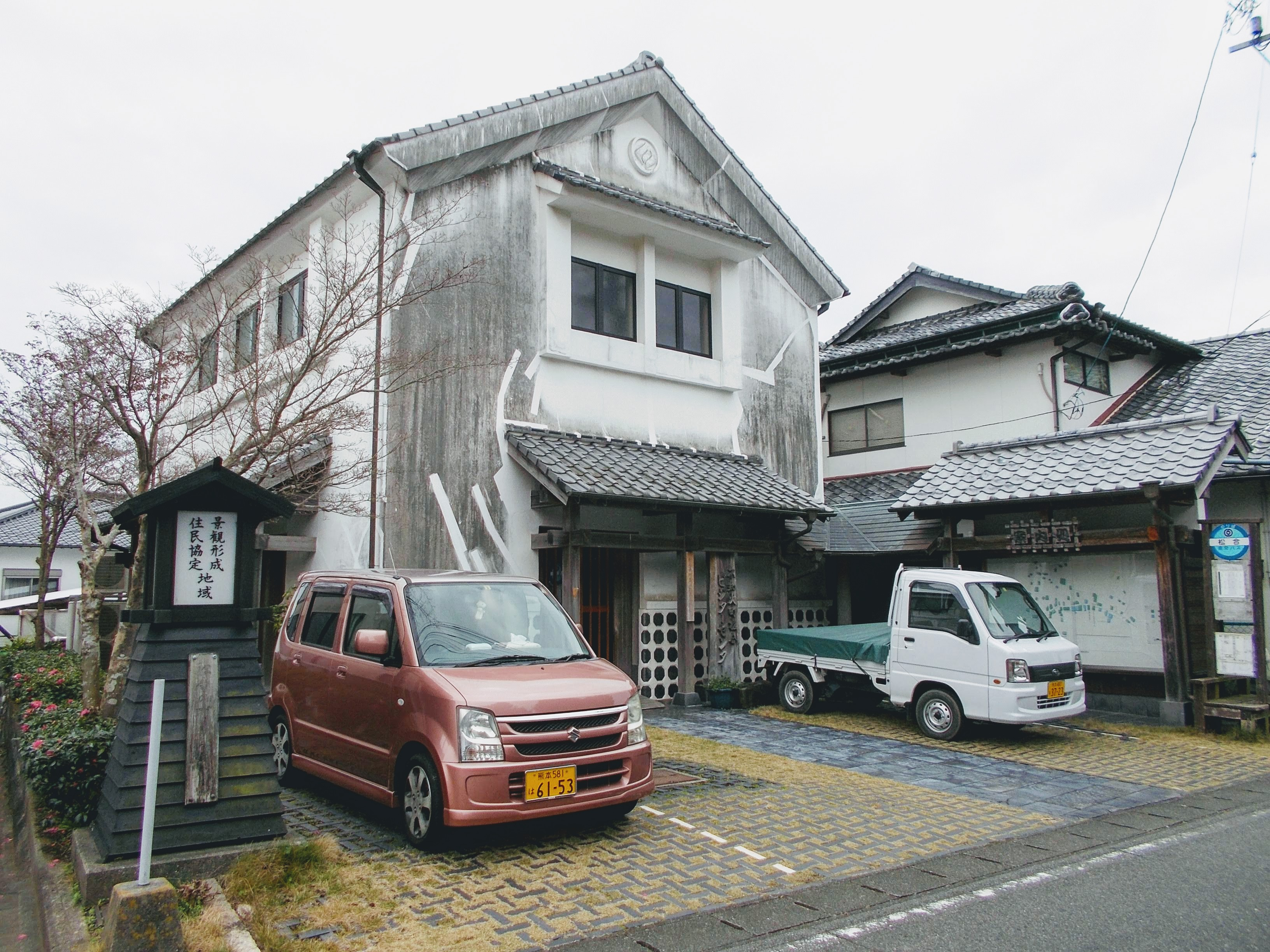 Matsuai Visitor Center, Uki, Kumamoto, Japan